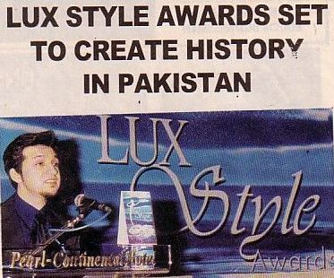 Faraz Waqar was part of the Brand team of LUX at Unilever Pakistan and helped put together the first ever Lux Style Awards.